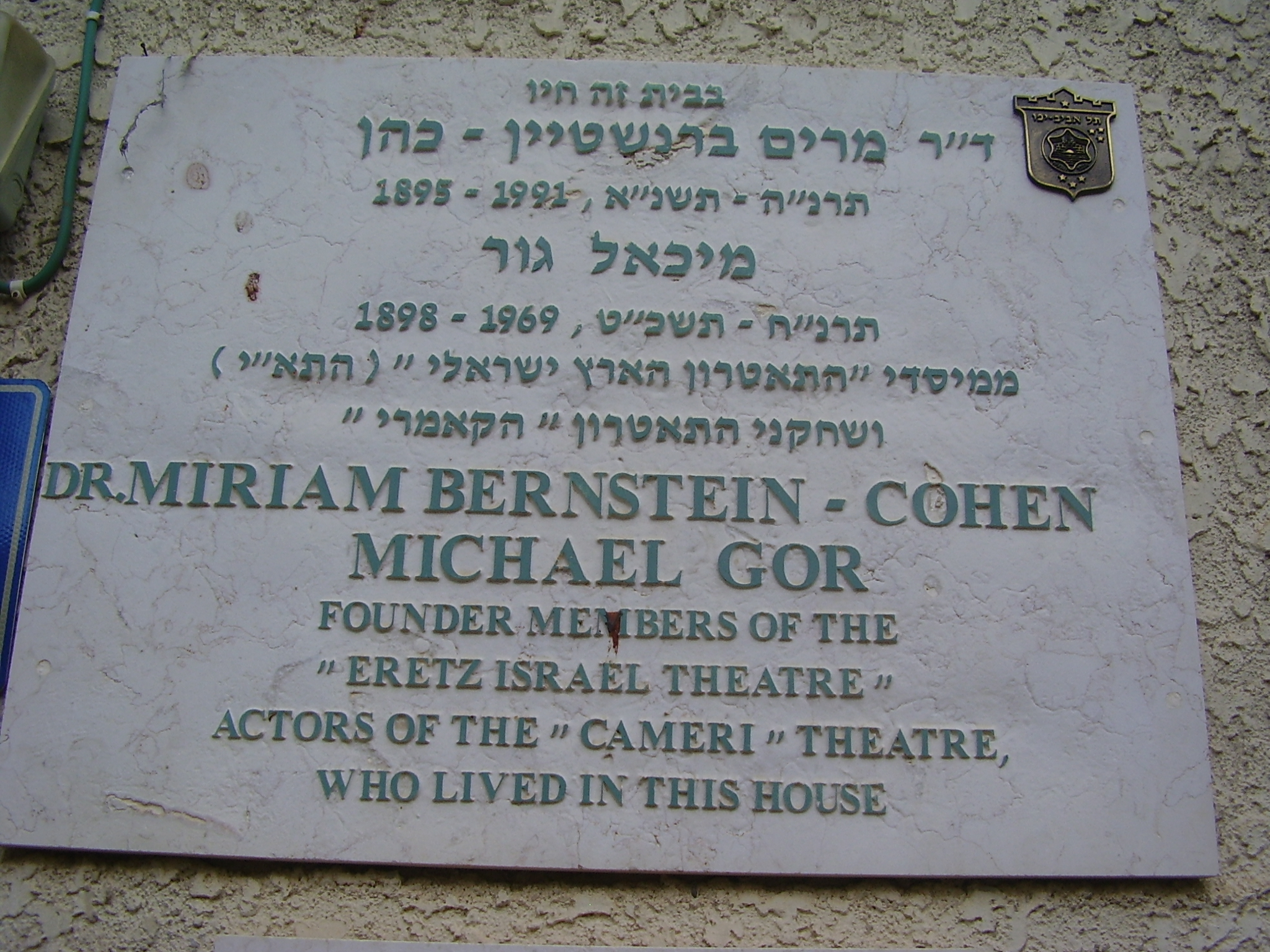 memorial plaque on the house of the actors miriam bernstein-coheh and her husband michael gor in tel aviv לוחית זיכרון על ביתם של השחקנים מרים ברנשטיין-כהן ובעלה מיכאל גור, ברח' ביל"ו 5 בתל אביב